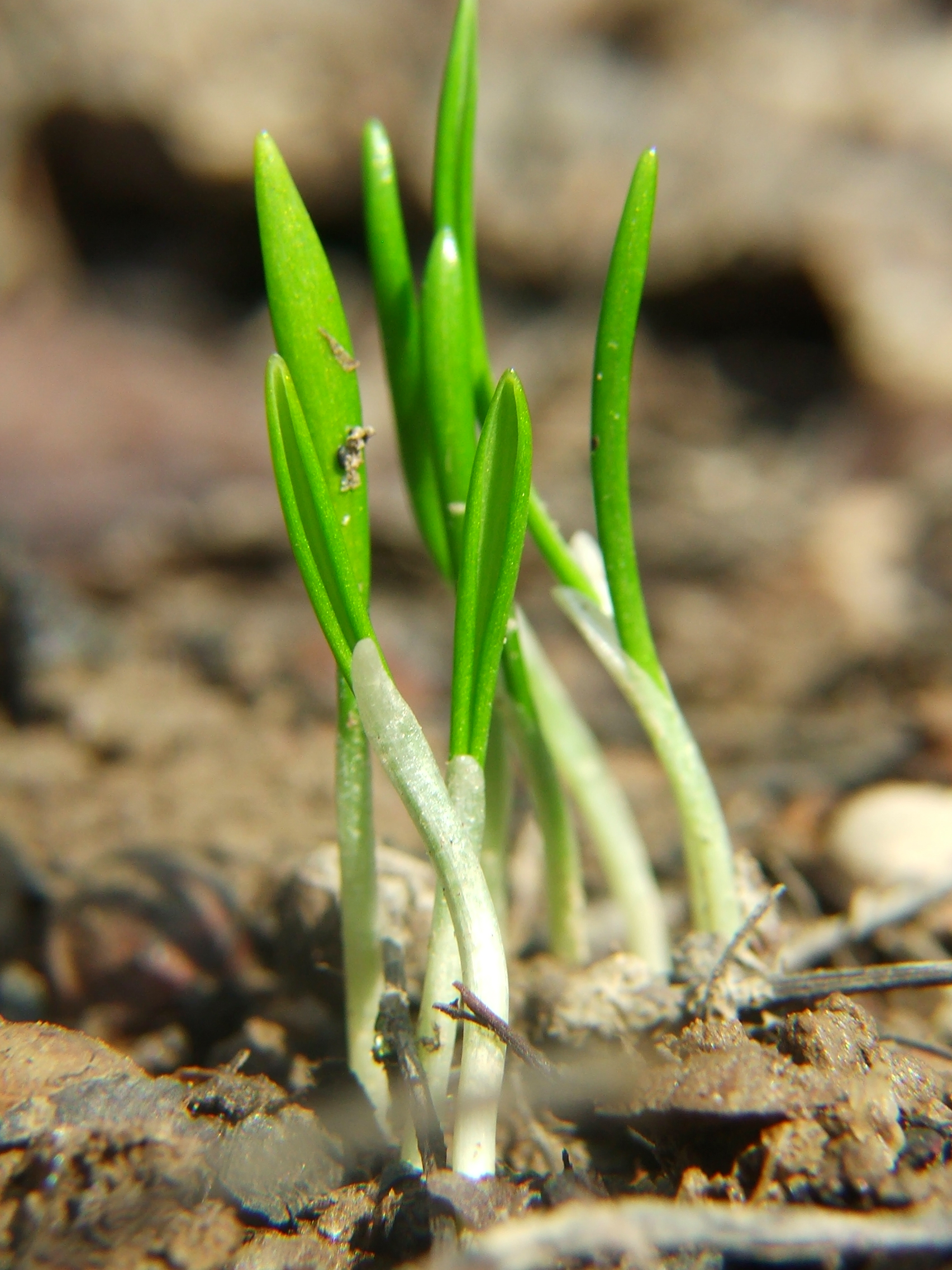 Allium ursinum. Young leaves grows from bulb (not seedling)